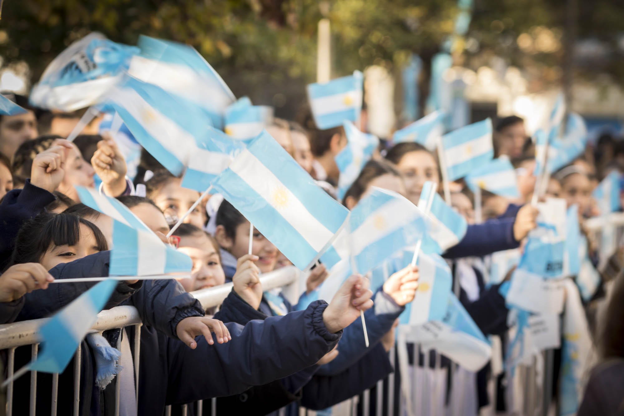 Bicentenario de Argentina en Tucumán